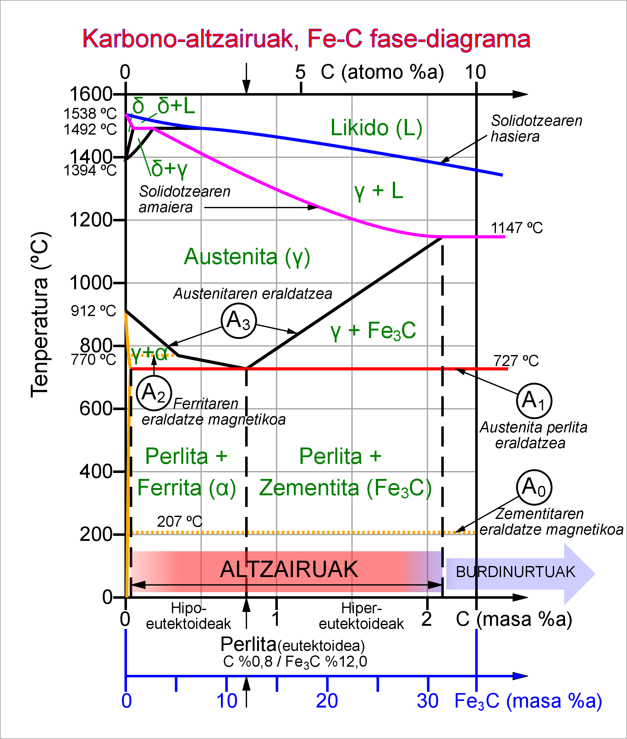 Fe-C phase diagram of carbon steels in Basque. If you want to translate the contents of this file into another language, you better copy the “Steel_Fe-C_phase_diagram-eu.svg” file and modify it to, from the modified file, generate another PNG file.